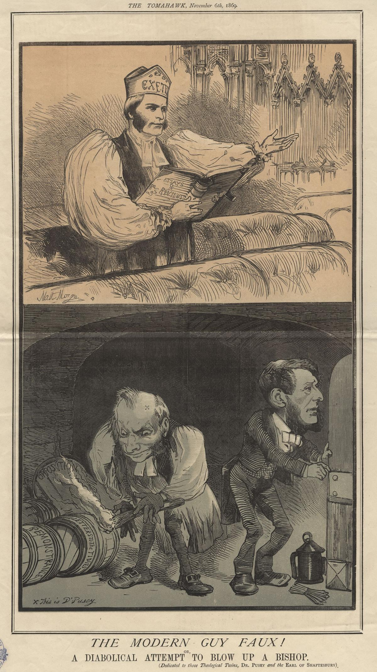 Frederick Temple (when Bishop of Exeter); Edward Bouverie Pusey; Anthony Ashley-Cooper, 7th Earl of Shaftesbury, by Matt Somerville Morgan (died 1890), published 1869. All images in this batch have been confirmed as author died before 1939 according to the official death date listed by the NPG.